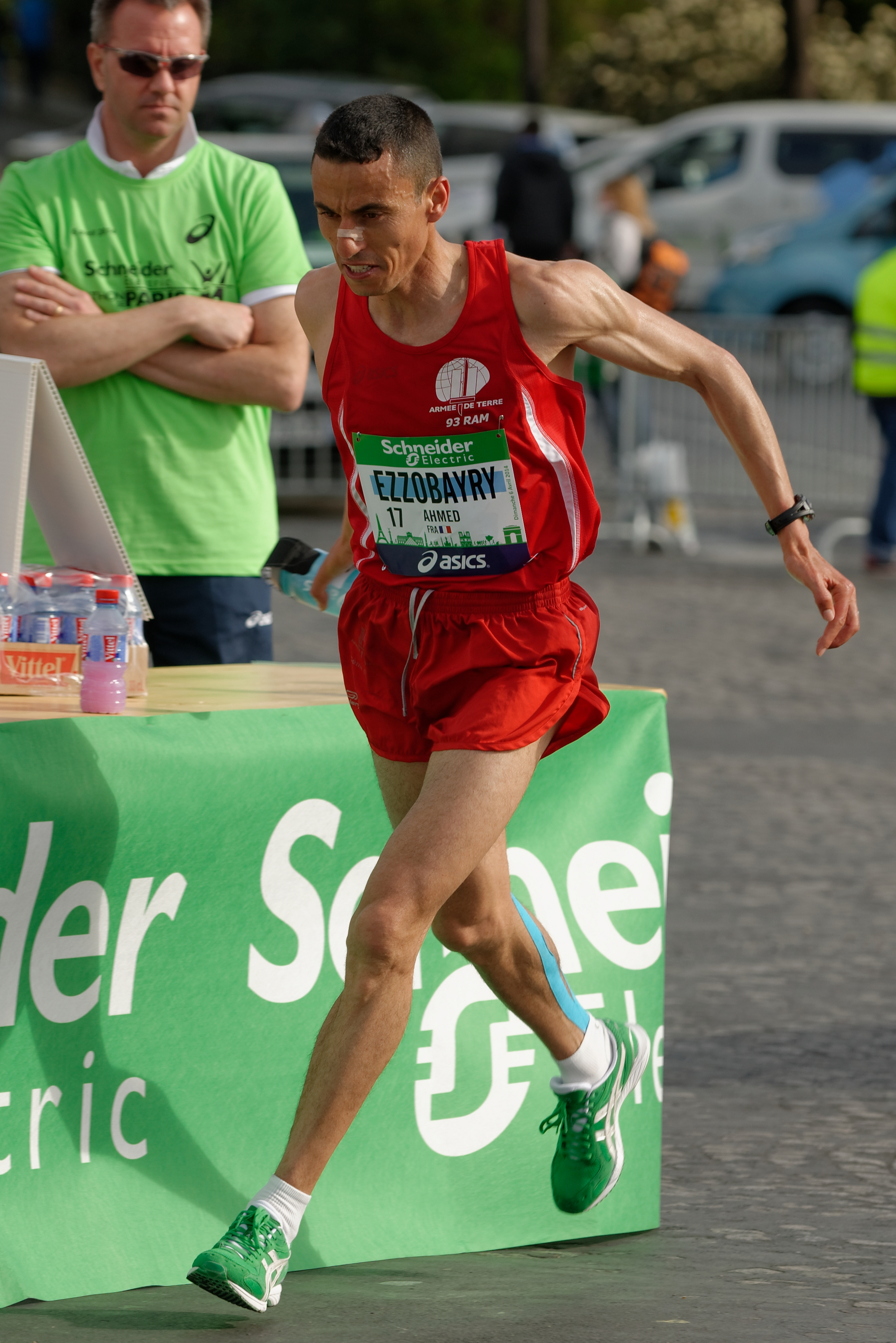 France's Ahmed Ezzobayry at the Trocadéro refreshment tables in the 2014 Paris Marathon.